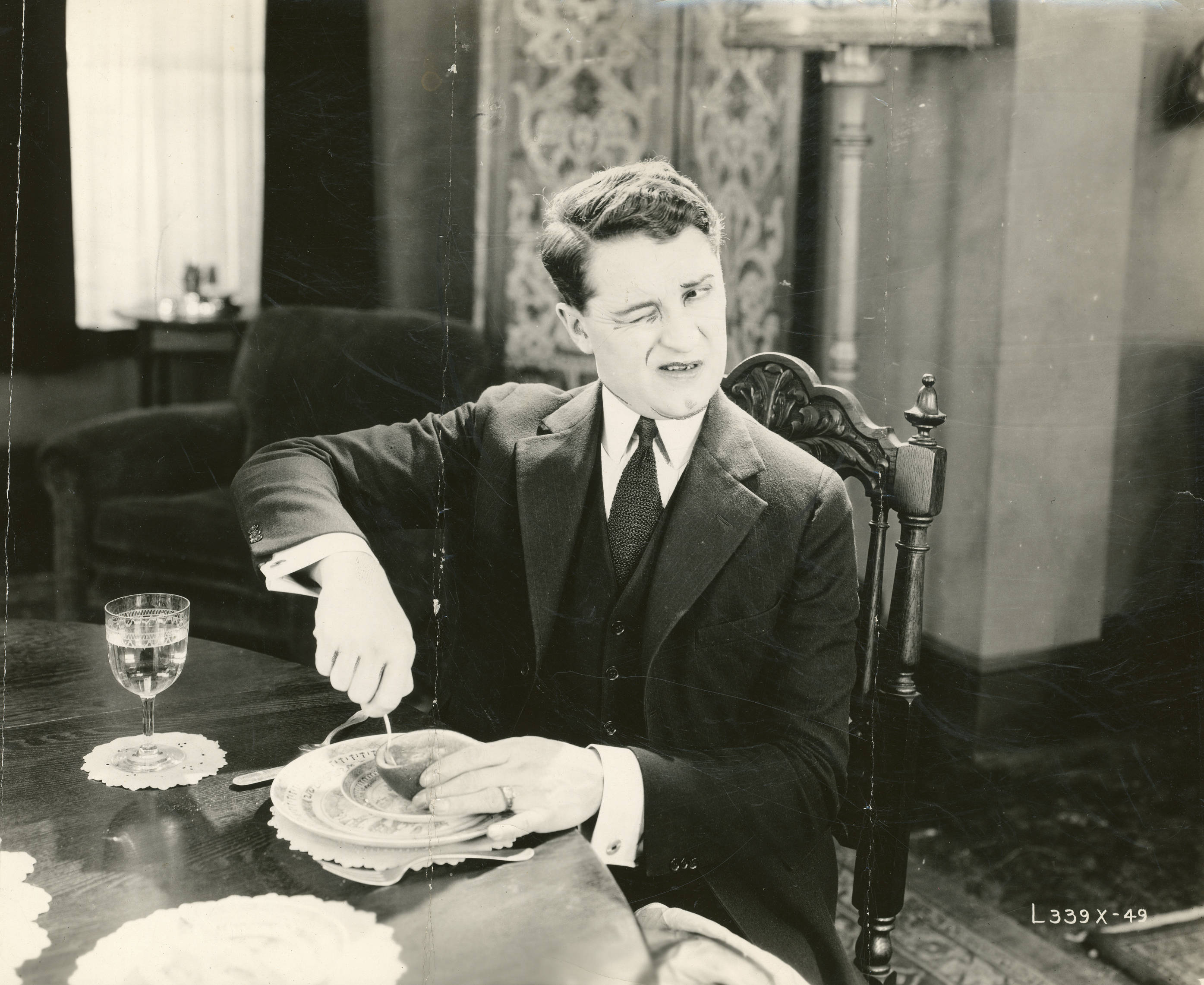 A scene from the American comedy film What Happened to Jones (1920), which played at the Rex Theater, Seattle. Includes Bryant Washburn. Date stamped Oct. 7, 1920. The film was based upon a 1897 play of the same name. Subjects: motion pictures, actors